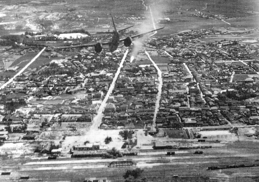 A United States Air Force 3rd Bombardment Group (Light) B-26 Invader attacks the rail yard at Iri, South Korea, with rockets during the Korean War as part of deception operations to draw enemy attention away from amphibious landings at Inchon scheduled for 15 September 1950.